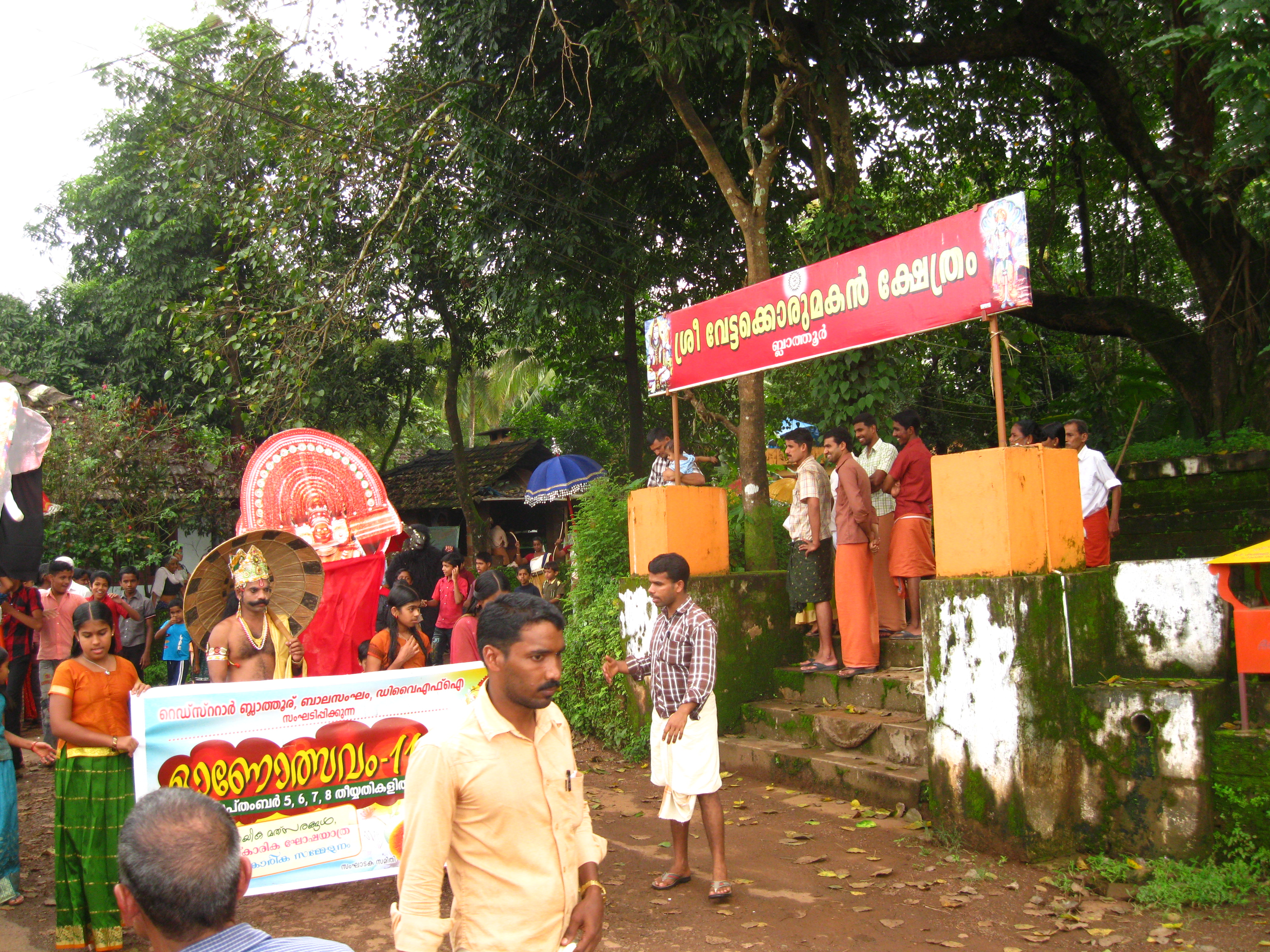 onam celebration at BLATHUR